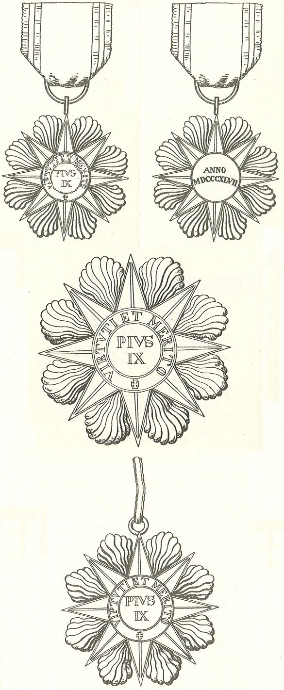 Frawings of the Order of Pius 1893